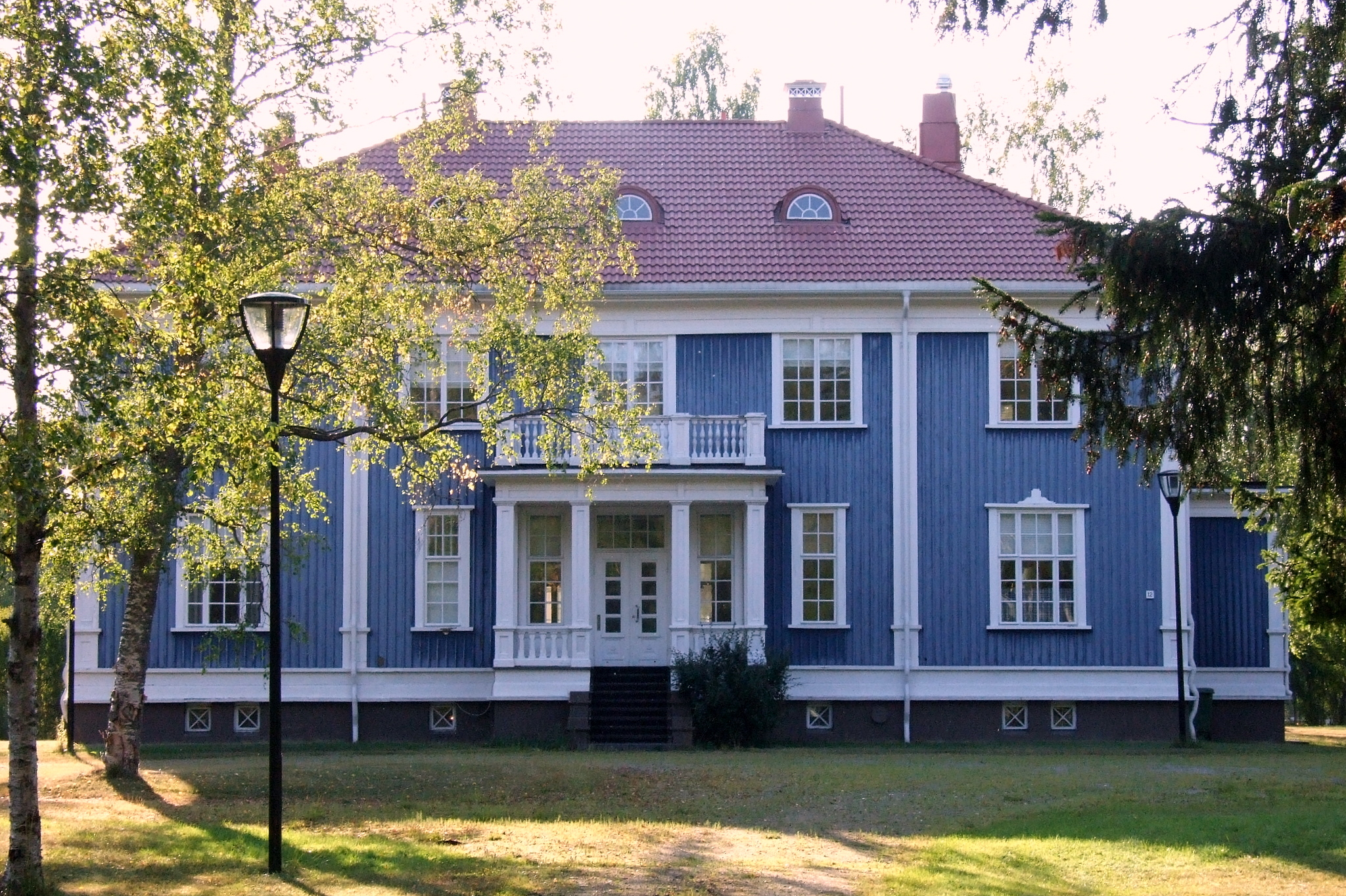 The residence for the CEO of Kemi Oy in Karihaara, Kemi, Finland. The building was designed by architect Birger Federley and built in 1921